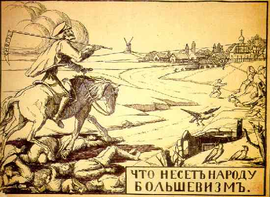 What bolshevism brings to the people. White Russian anti-communist poster.